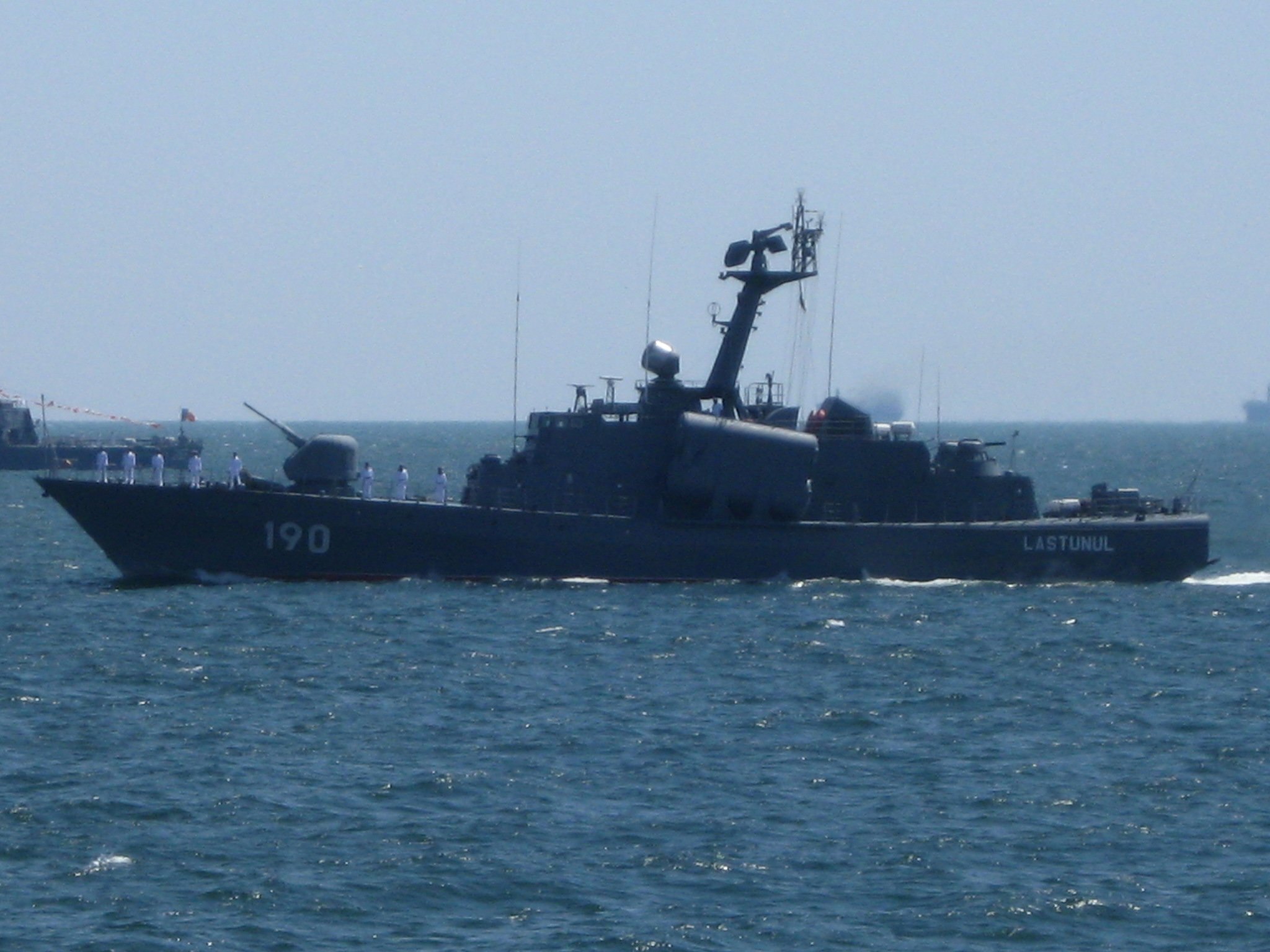 F-190 Lăstunul missile corvette, Romanian Navy day 2018